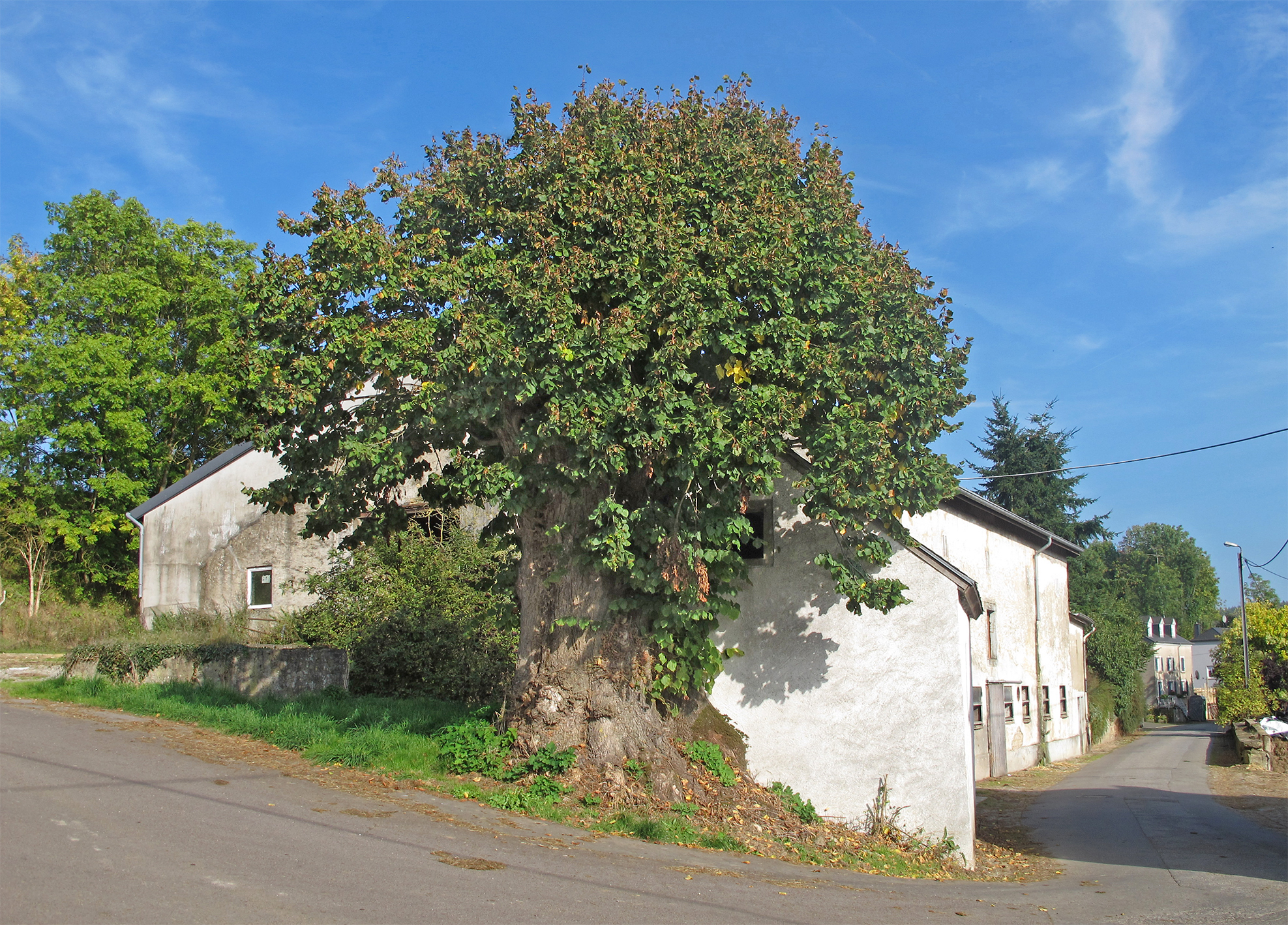 Lime tree at the chapel in Reuland, Luxembourg